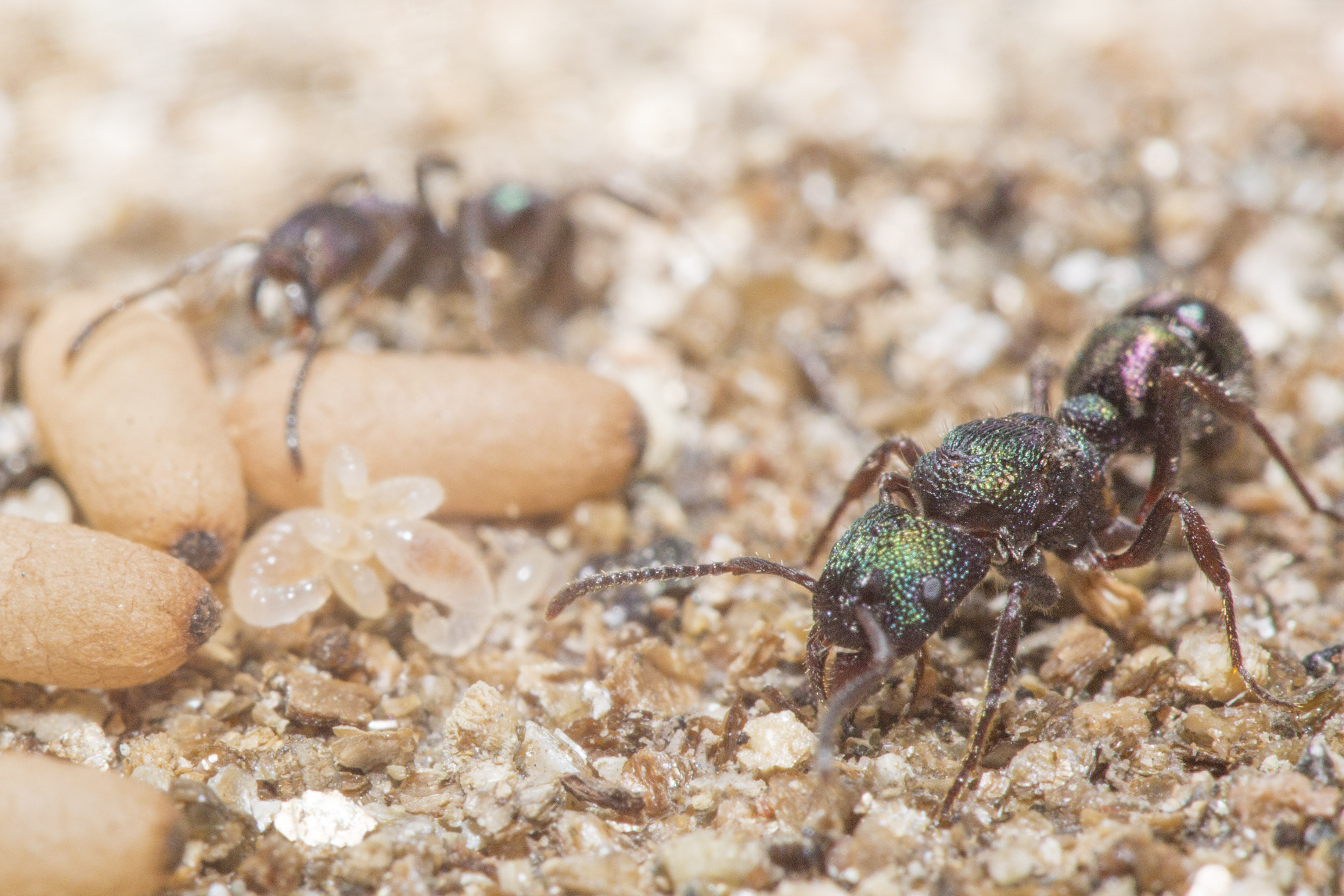 Rhytidoponera metallica queen in captivity with pupae and worker.